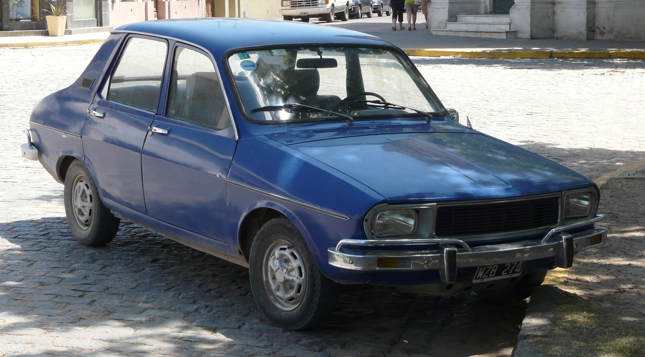 Argentine Renault 12, San Antonio de Areco, Argentina, November 2008.